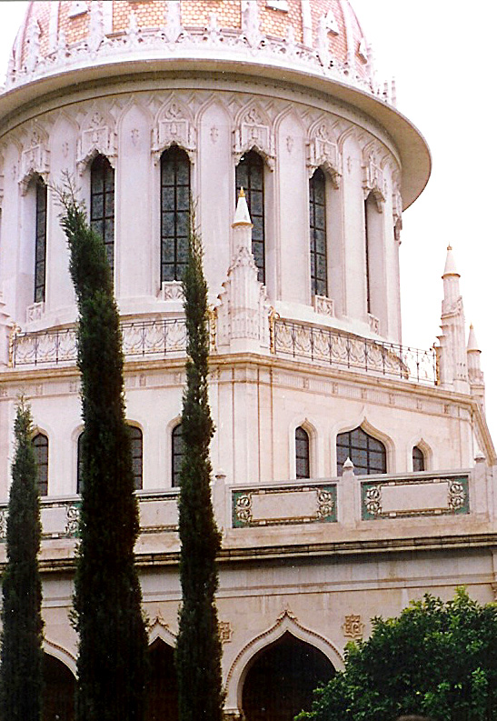 Israel, Haifa, Shrine of the Báb